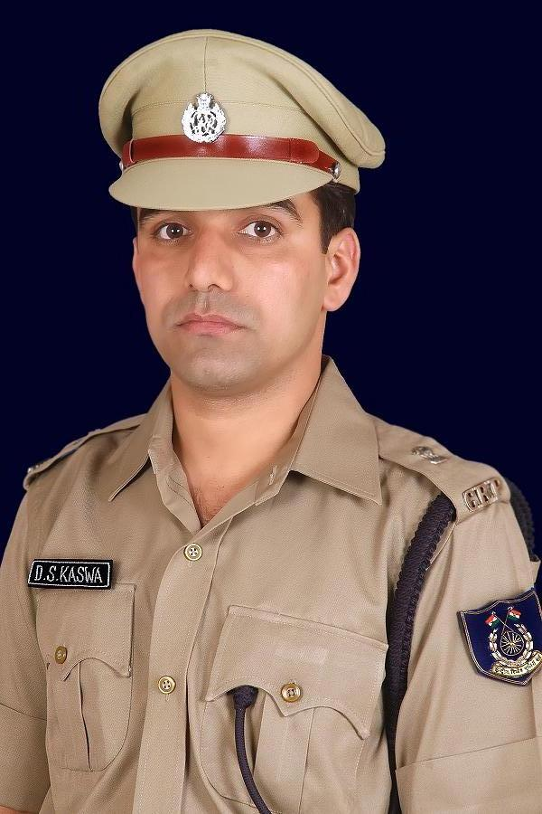 Devendra Singh Kaswa (born on October 15, 1979 in Bikaner) is a commander of the Commando Battalion for Resolute Action force, India.